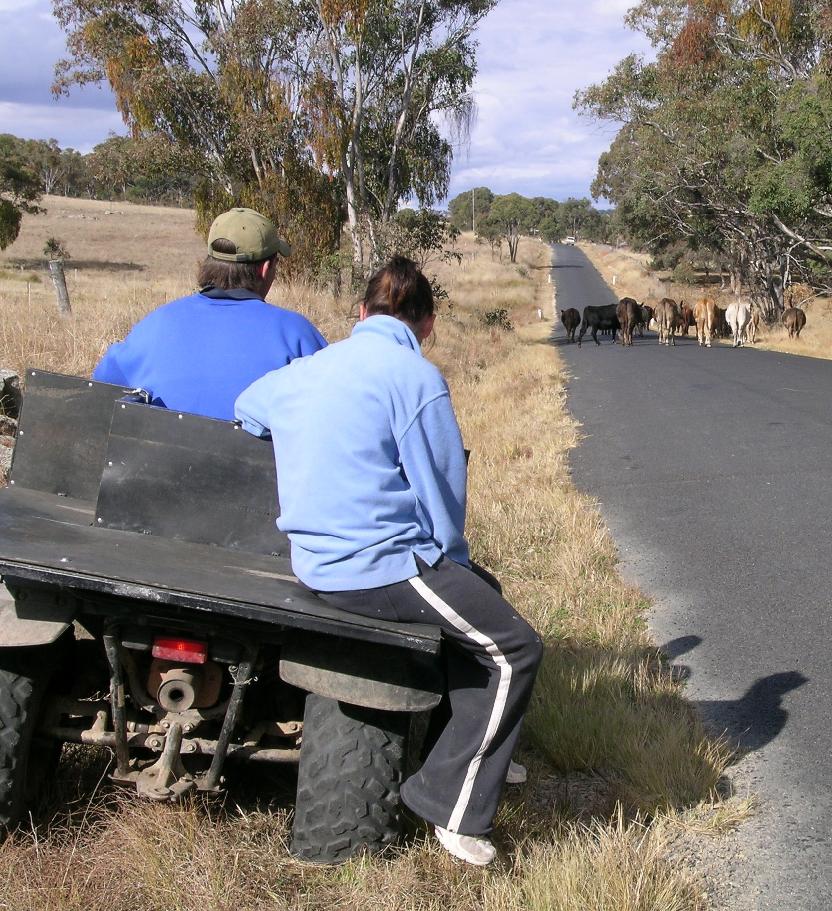 The modern way of droving and mustering in Australia.